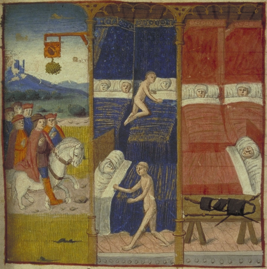 Miniature illustrating tale 30 of the Cent Nouvelles nouvelles (Tale of the three friars). Folio 70r of the GB 0247 MS Hunter 252 (U.4.10).